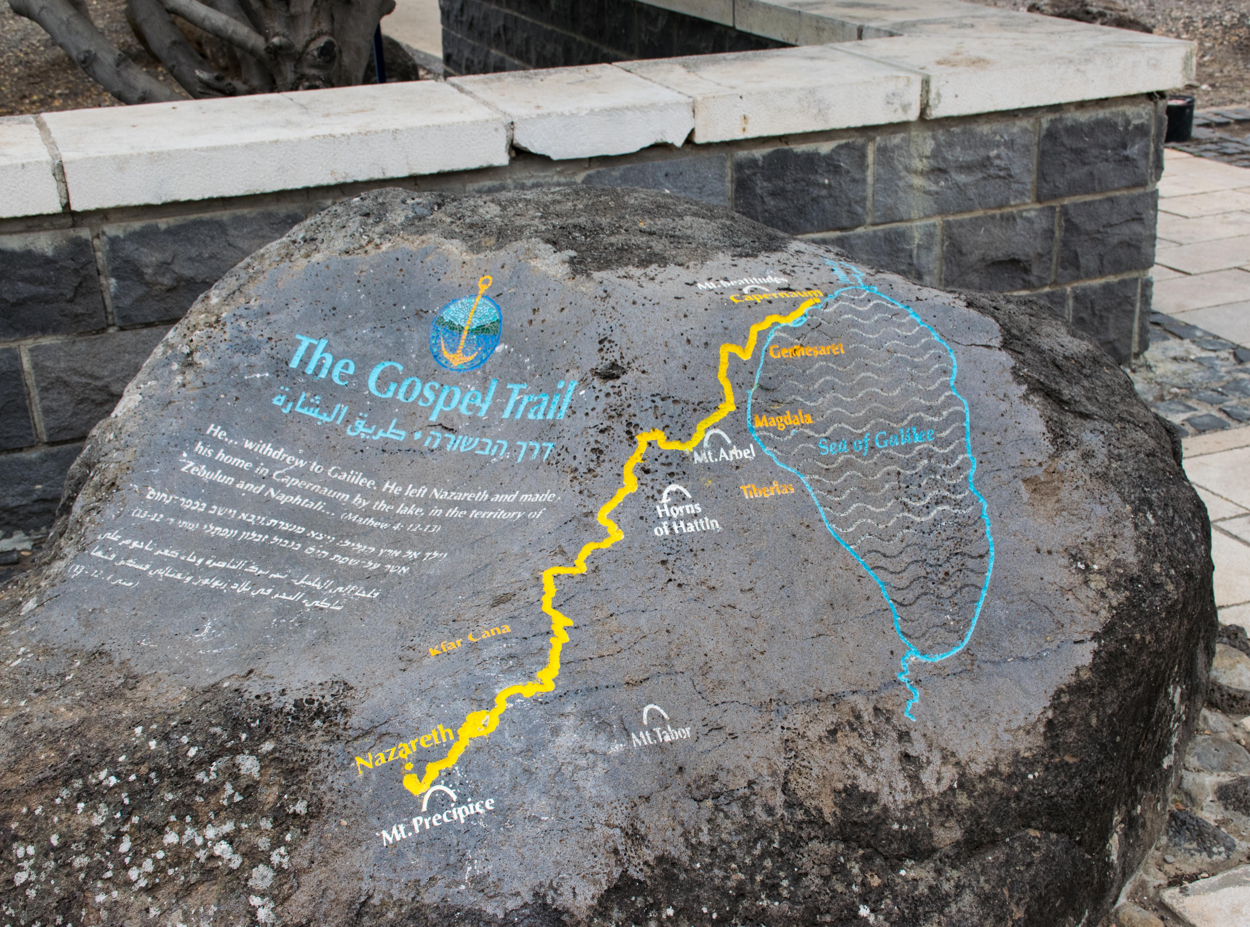 The Gospel Trail